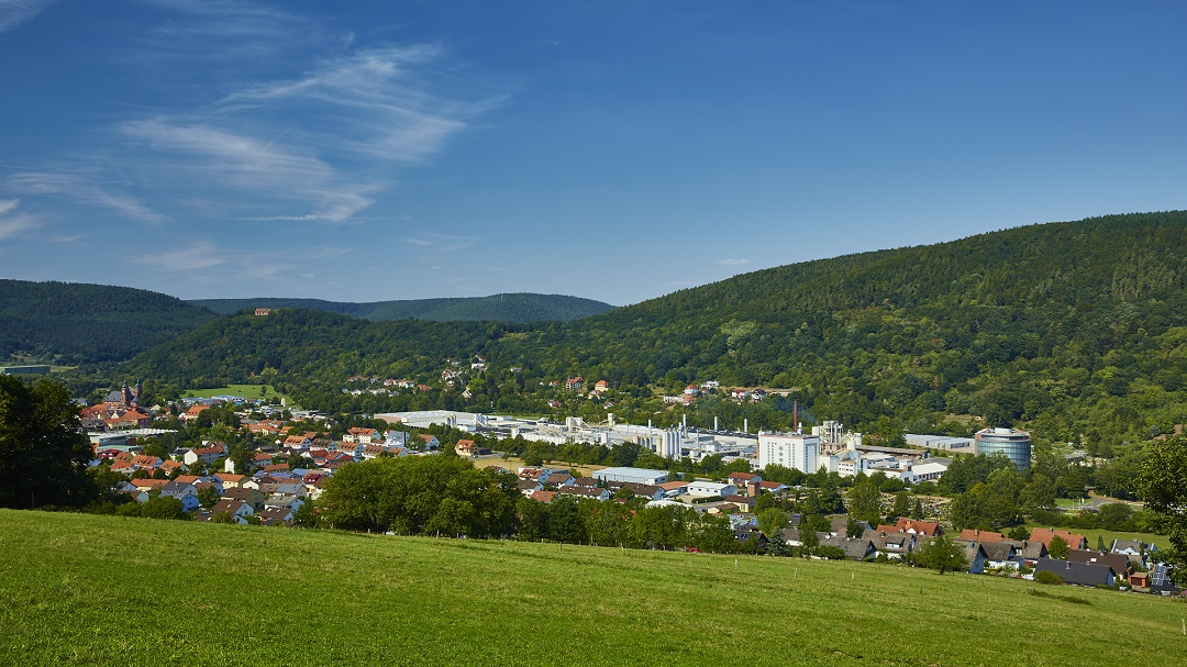 OWA Landscape